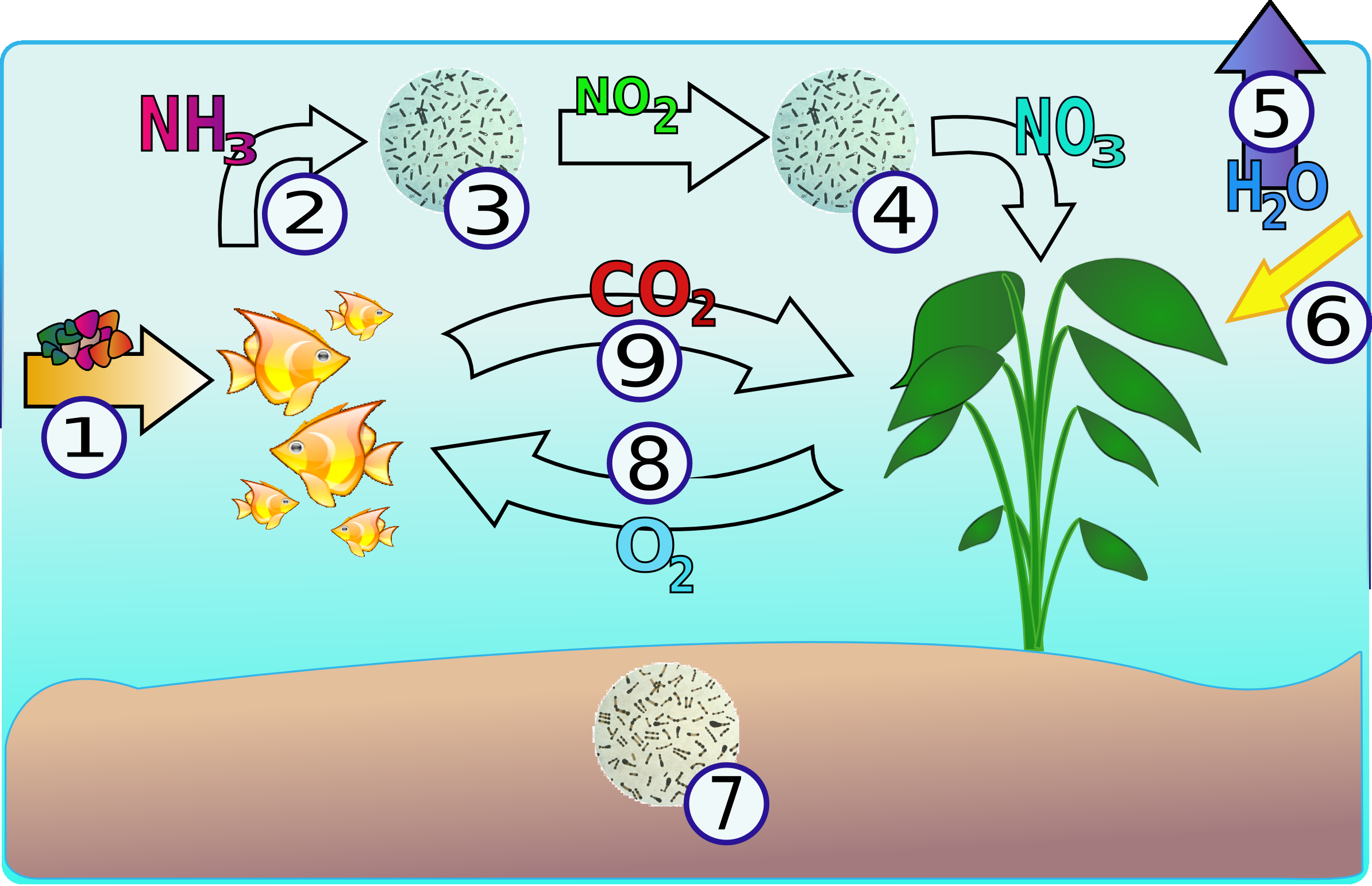 Nitrogen Cycle in aquariums. Legend: (1) Addition of food and nutrients, (2) Production of Urea and Ammonia by Fish, (3) Ammonia is converted to Nitrites by beneficial Nitrosomonas bacteria, (4) Nitrites are converted to Nitrates by beneficial Nitrospira bacteria. Less toxic Nitrates are removed by plants and periodic water changes. (5) Evaporation. (6) Light, (7) Oxygen Cycle, (8) O2 produced by plants, (9) CO2 produced by Fish